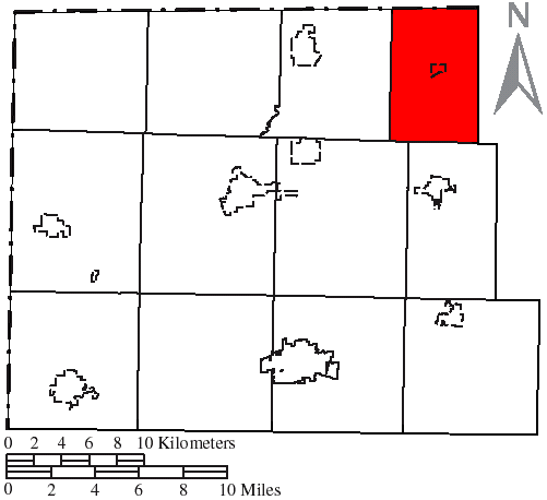 Made by the US Census and modified by myself